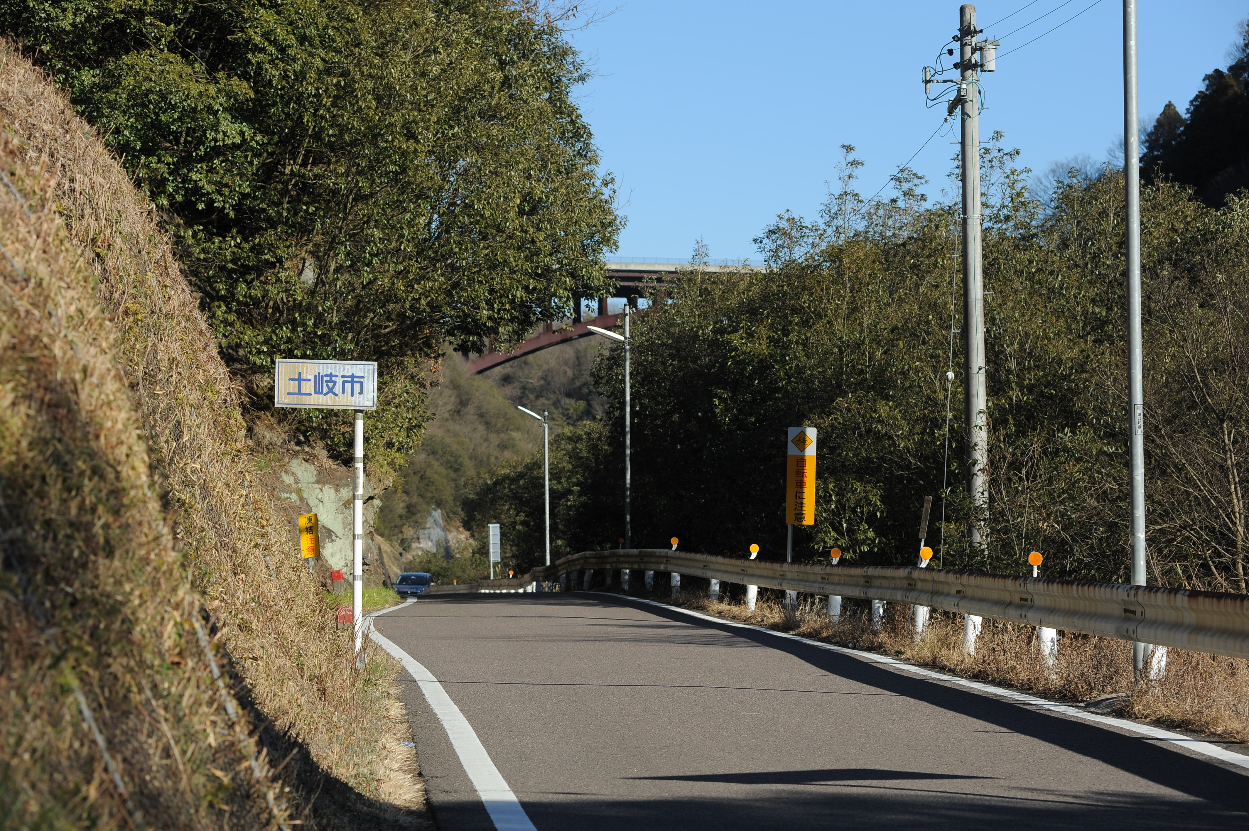 Gifu prefectural Route 385, Tajimi, Gifu